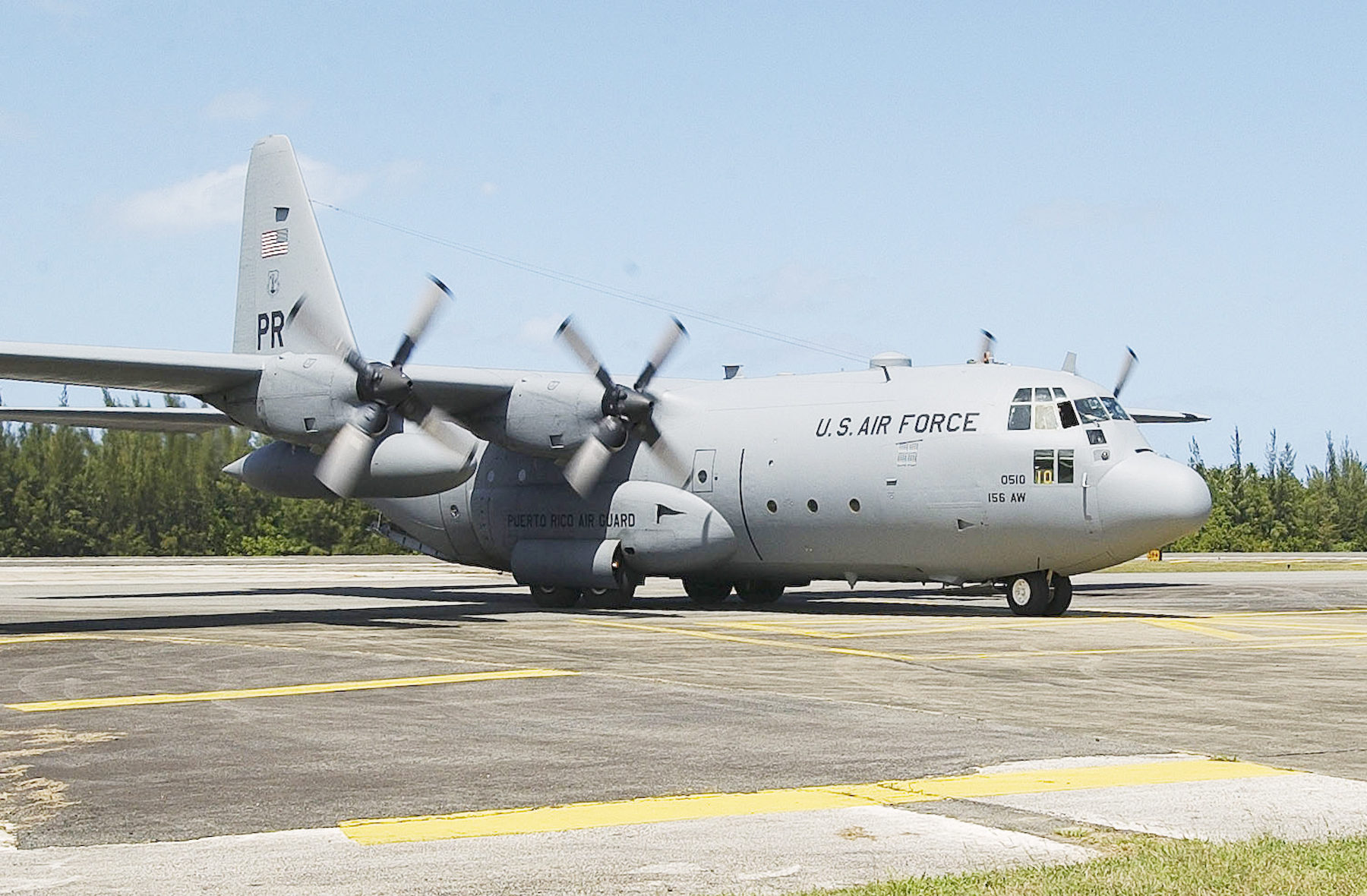 A U.S. Air Force Lockheed C-130E-LM Hercules (s/n 64-0510) from the 198th Airlift Squadron, 156th Airlift Wing, Puerto Rico Air National Guard, prepares to take off from Muniz ANGB, Puerto Rico, on 29 February 2004.